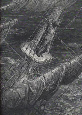 Illustration for The Rime of the Ancient Mariner. The Mariner up on the mast in a storm.